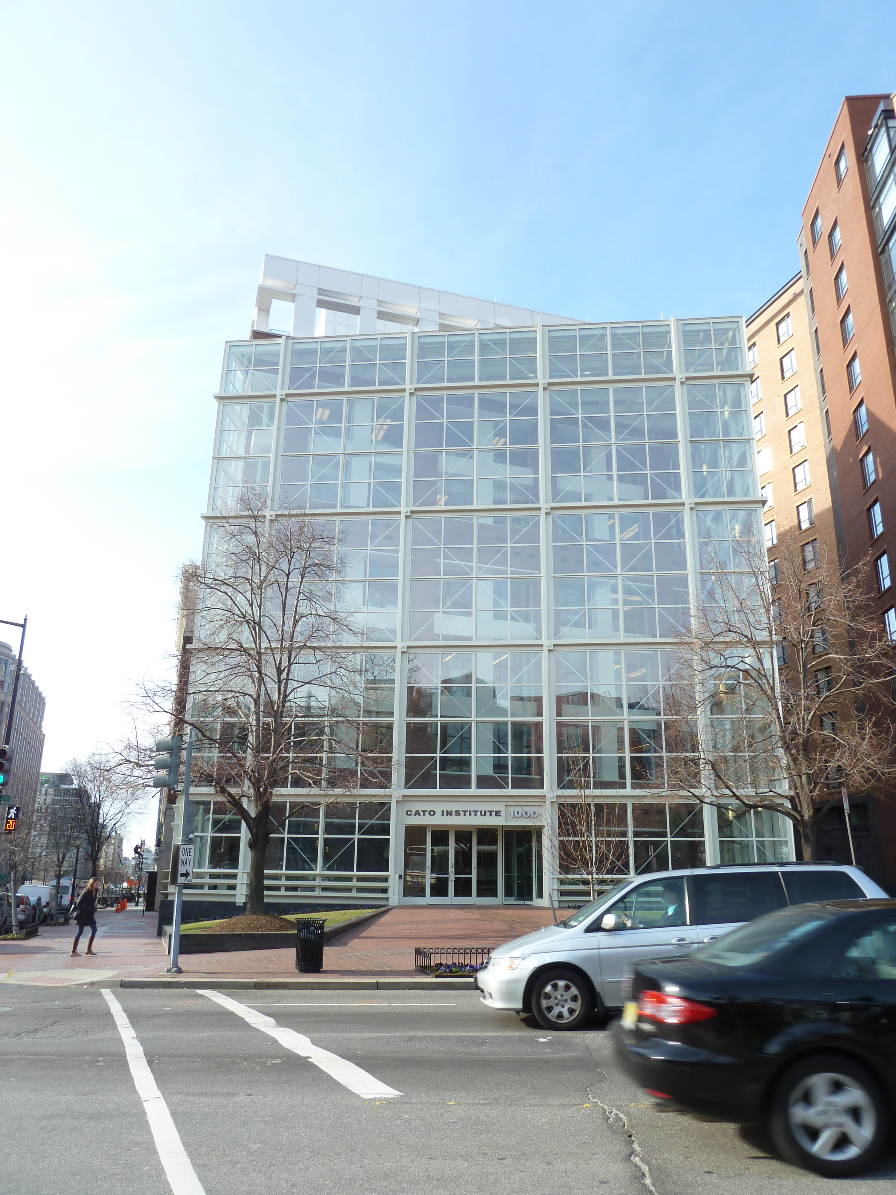 Taken during the March 2013 Wikimedia Cato Meetup/Legislative Data Workshop.